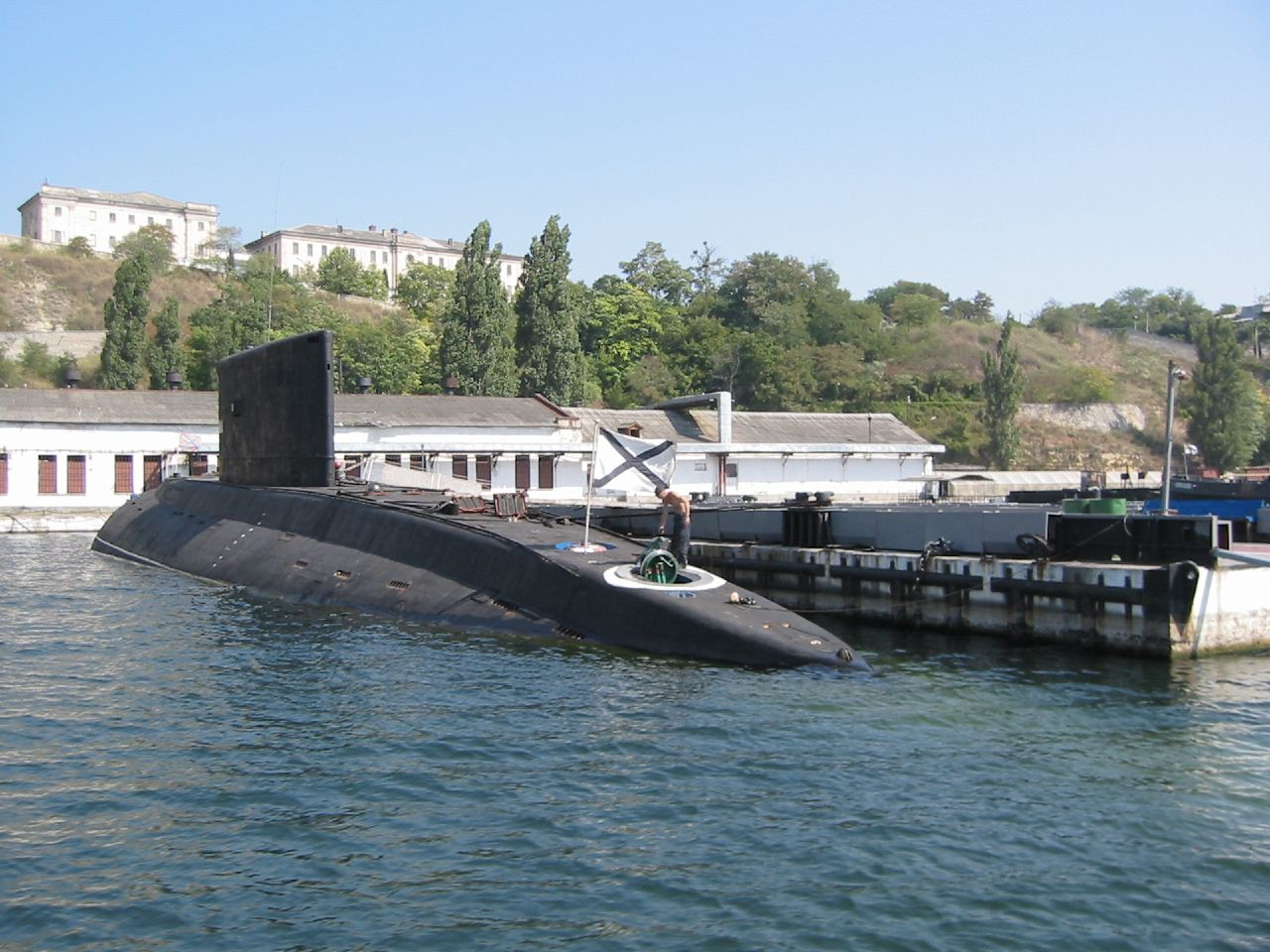 Project 877-V submarine B-871 «Alrosa». The Black sea, Sevastopol bay.